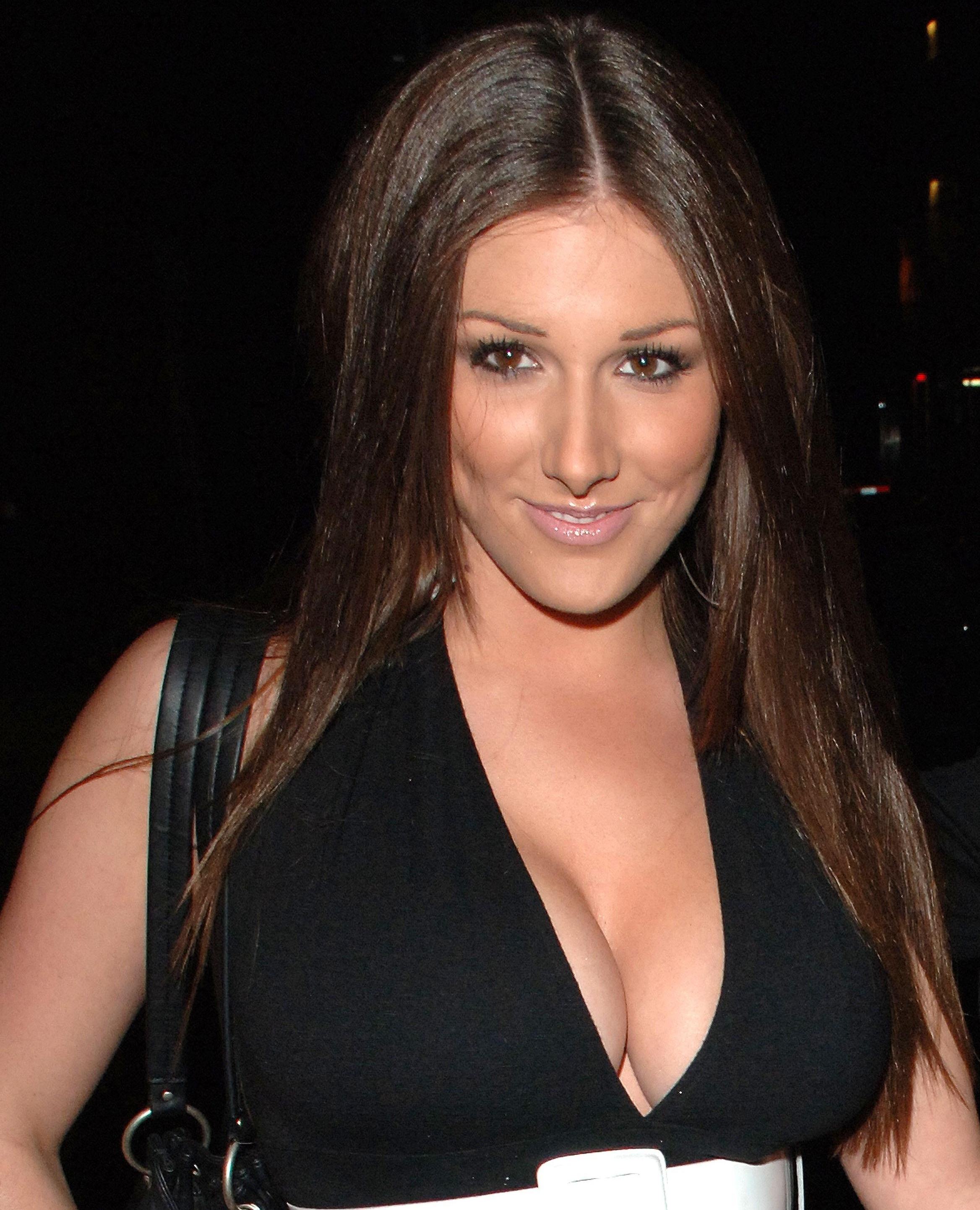 Picture of Lucy Pinder.